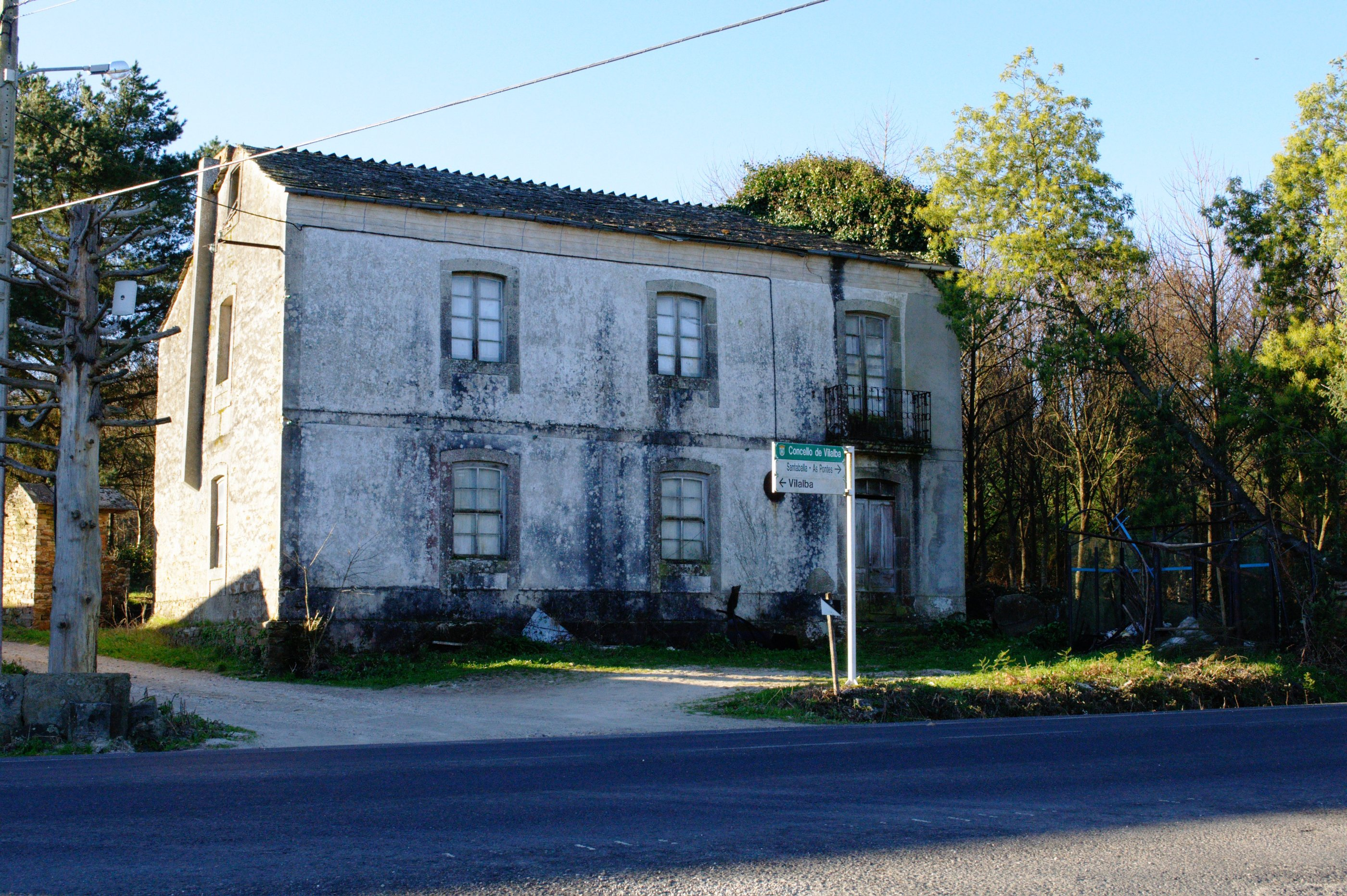 Old school of Fontepisón in the parish of Santaballa, Vilalba, Lugo, Spain.